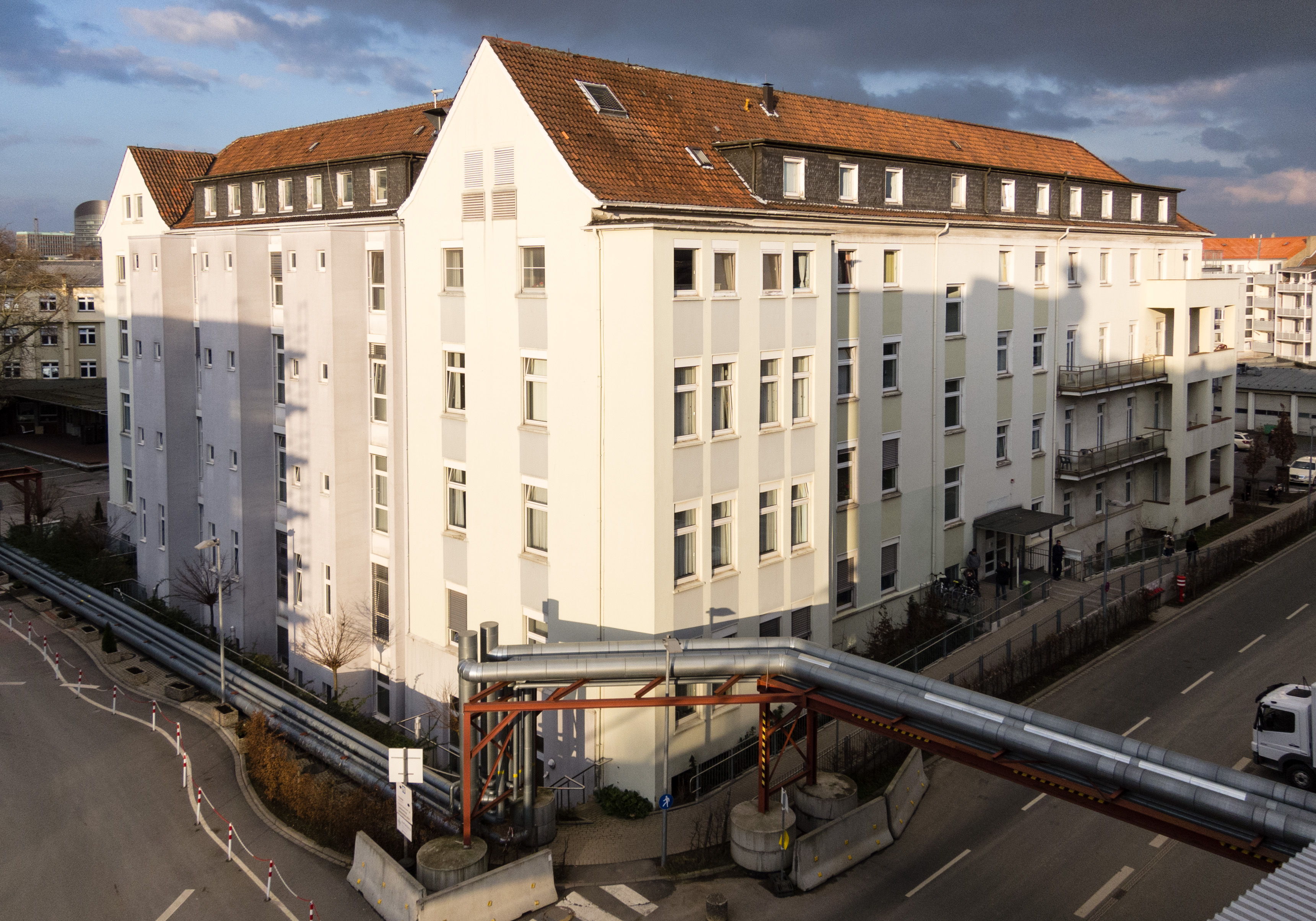 Klinikum Dortmund, Klinikzentrum Mitte (city centre); Dudenstift, former Gynaecology